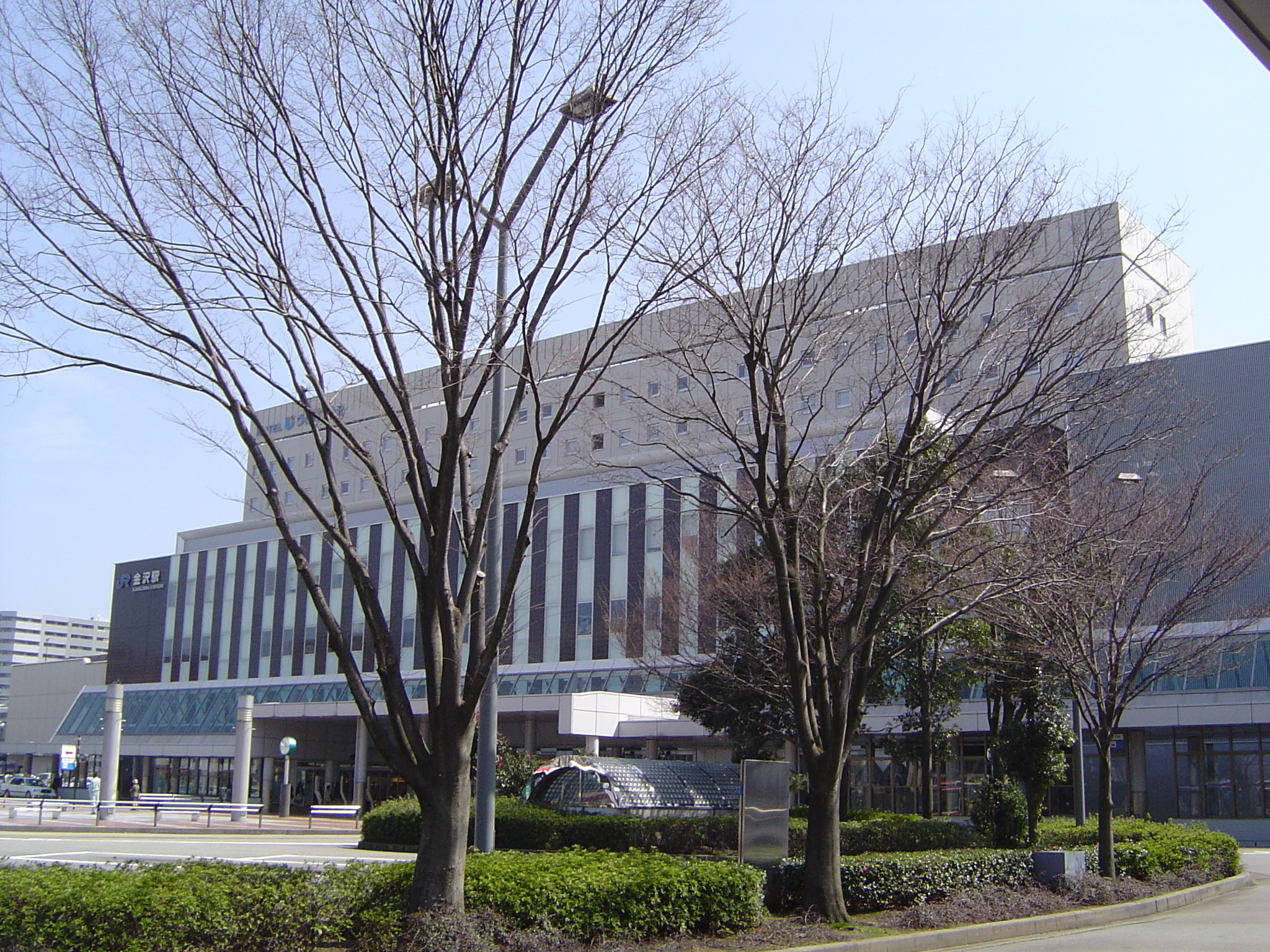 Kanazawa Station, West Entrance